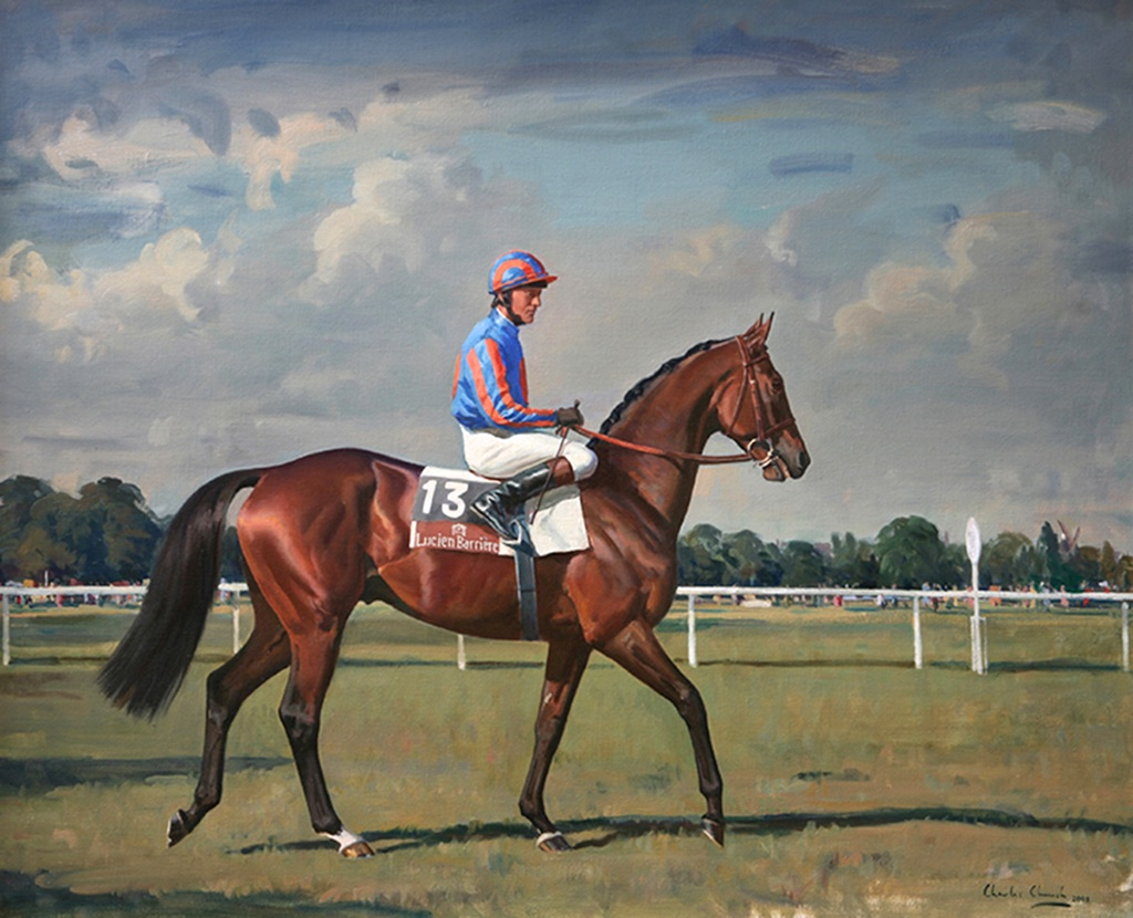 Hurricane Run: World champion winner of the Prix de l'Arc de Triomphe and the King George VI and Queen Elizabeth Stakes, painting by Charles Church.